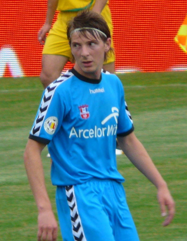 Liviu Antal in May 2010, during Otelul - Vaslui